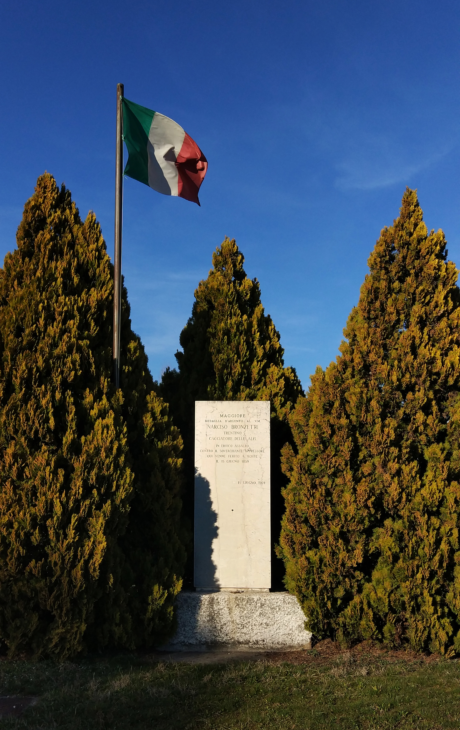 Monumento Narciso Bronzetti